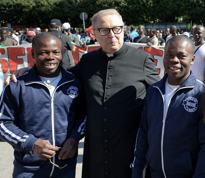 Bishop Nogaro with two guys during a sit in